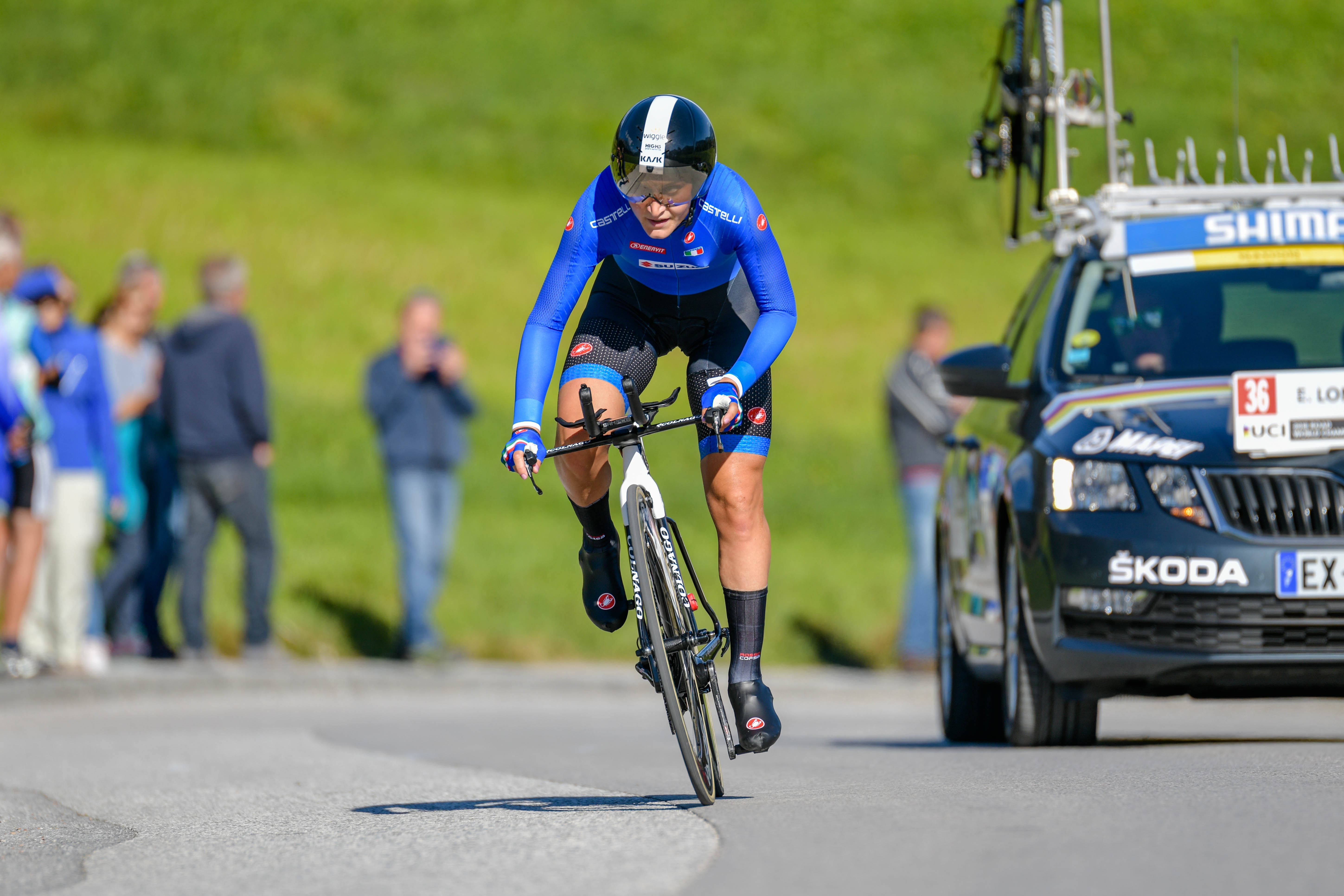 2018 UCI Road World Championships Innsbruck/Tirol Women Elite Individual Time Trial. Picture shows: Elisa Longo Borghini of Italy